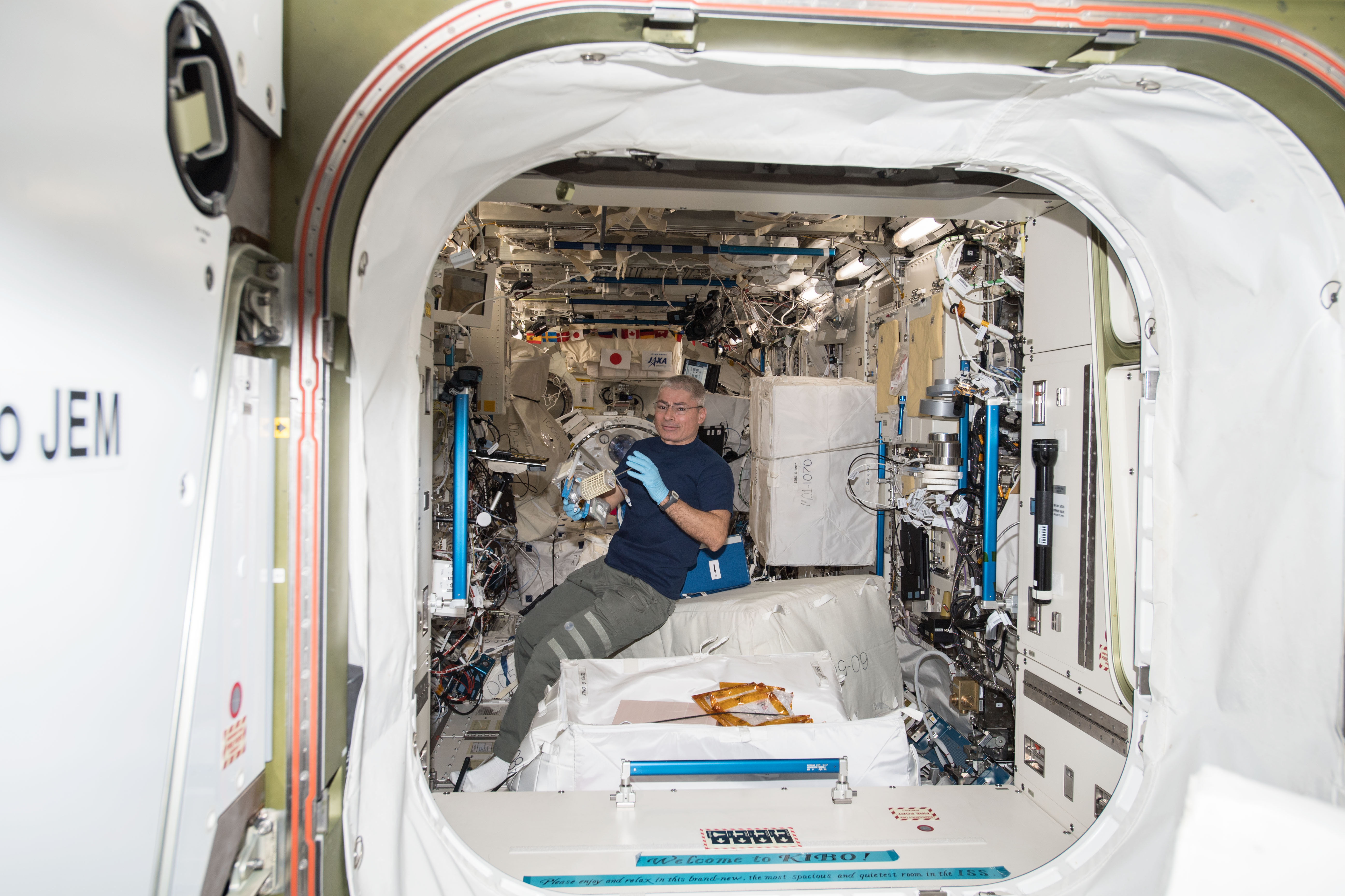 NASA astronaut Mark Vande Hei installs a sample for the Zebrafish Muscle 2 experiment in the Kibo Japanese Experiment Pressurized Module (JPM) to study the effects of muscle atrophy in space.